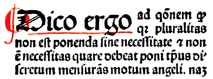 Part of a page from Duns Scotus' book Ordinatio: "Pluralitas non est ponenda sine necessitate", i.e., "Plurality is not to be posited without necessity".